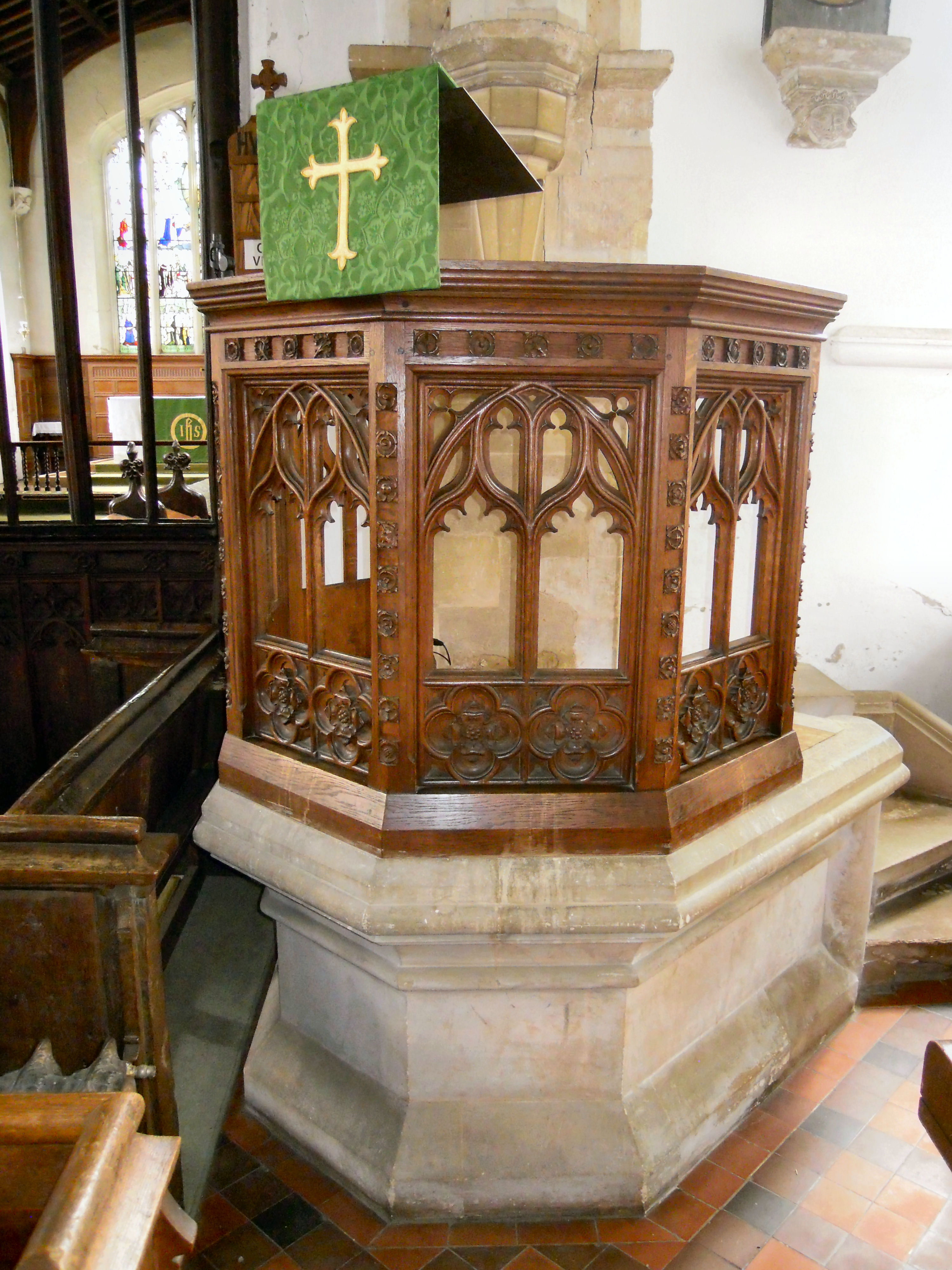 The 19th-century pulpit in the Church of St Mary the Virgin in Gamlingay in Cambridgeshire